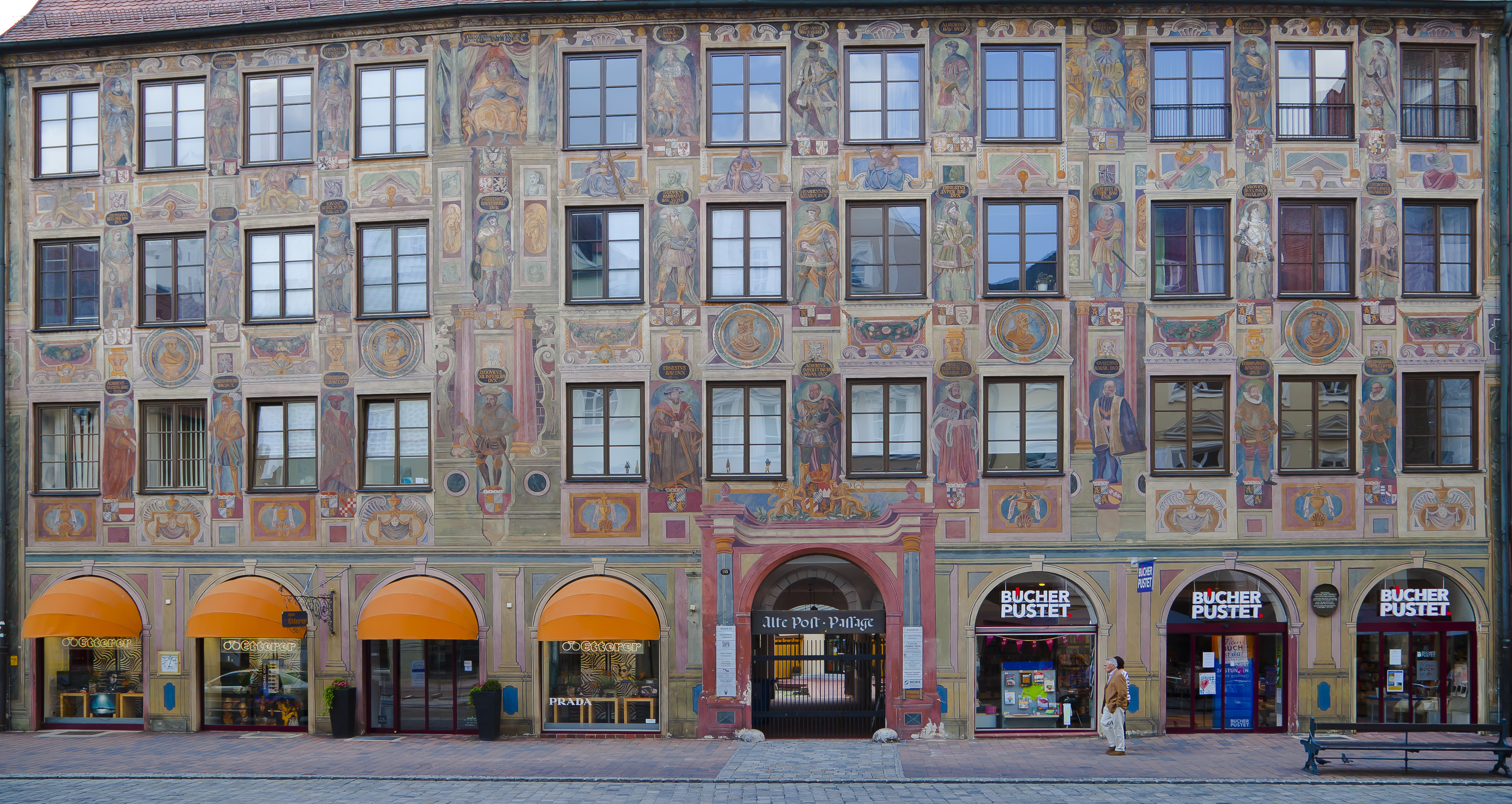 Landschaftshaus, Landshut, GermanyThis is a photograph of an architectural monument.